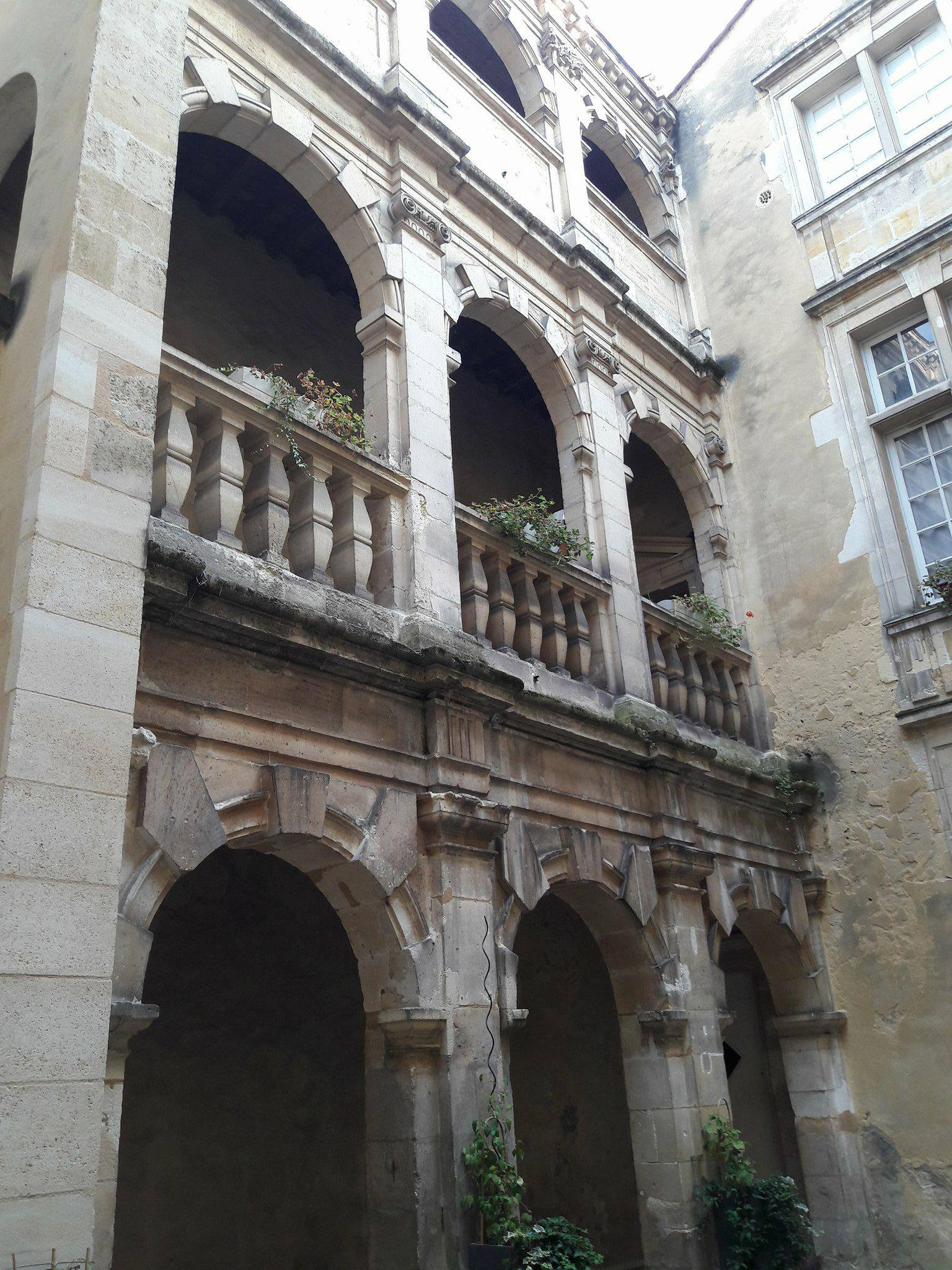 Mairerie (Bordeaux)